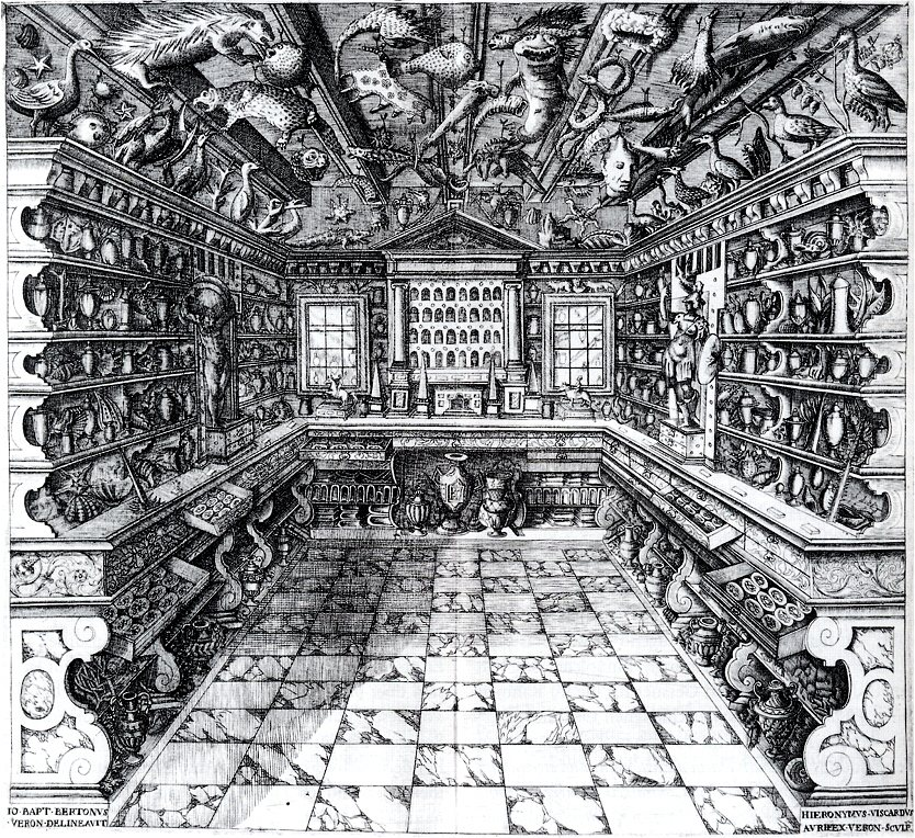 Francesco Calzolari's Cabinet of curiosities. From "Musaeum Calceolarium" (Verona, 1622)